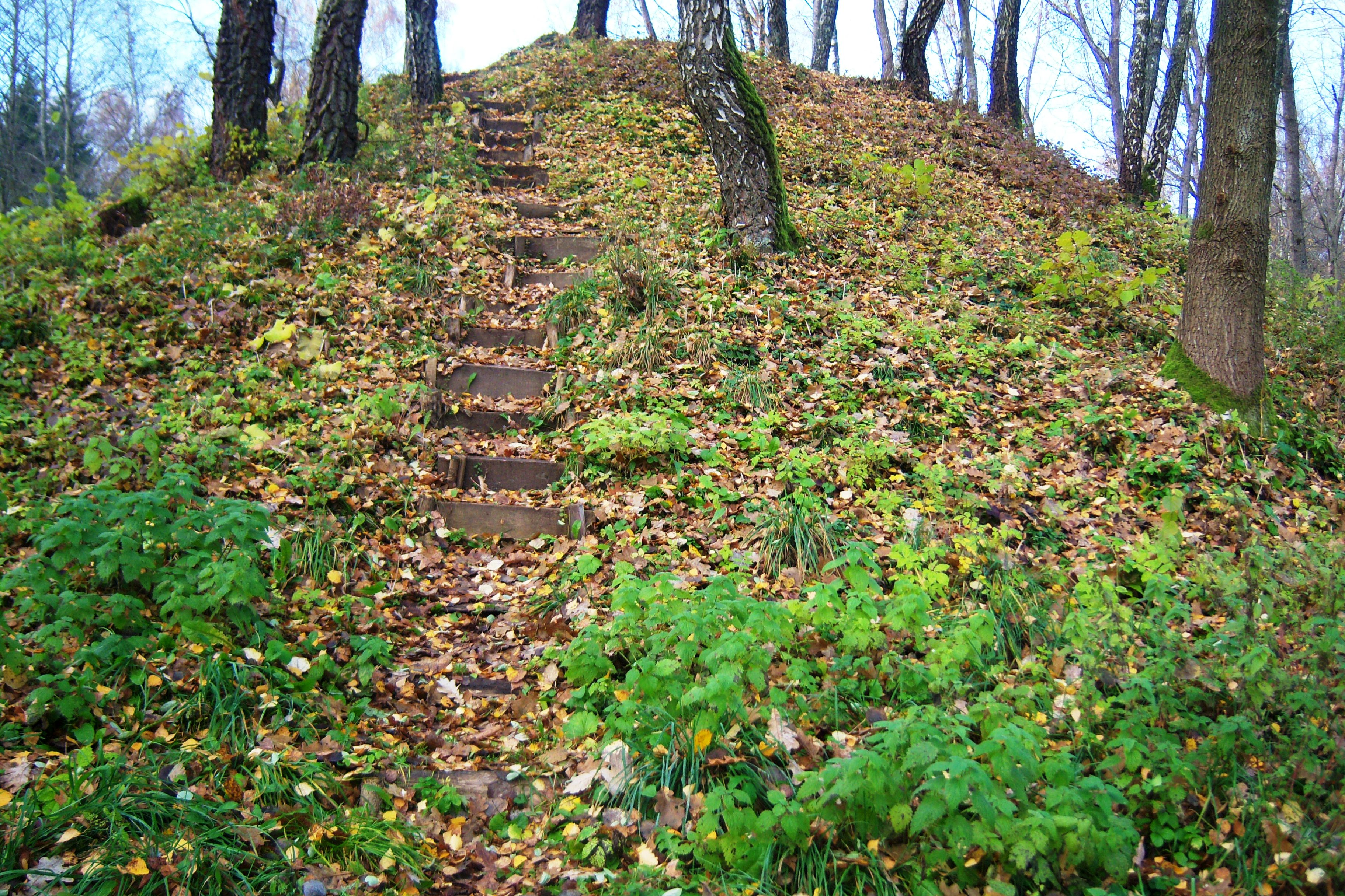 Samylai Hillfort, Kaunas District, Lithuania